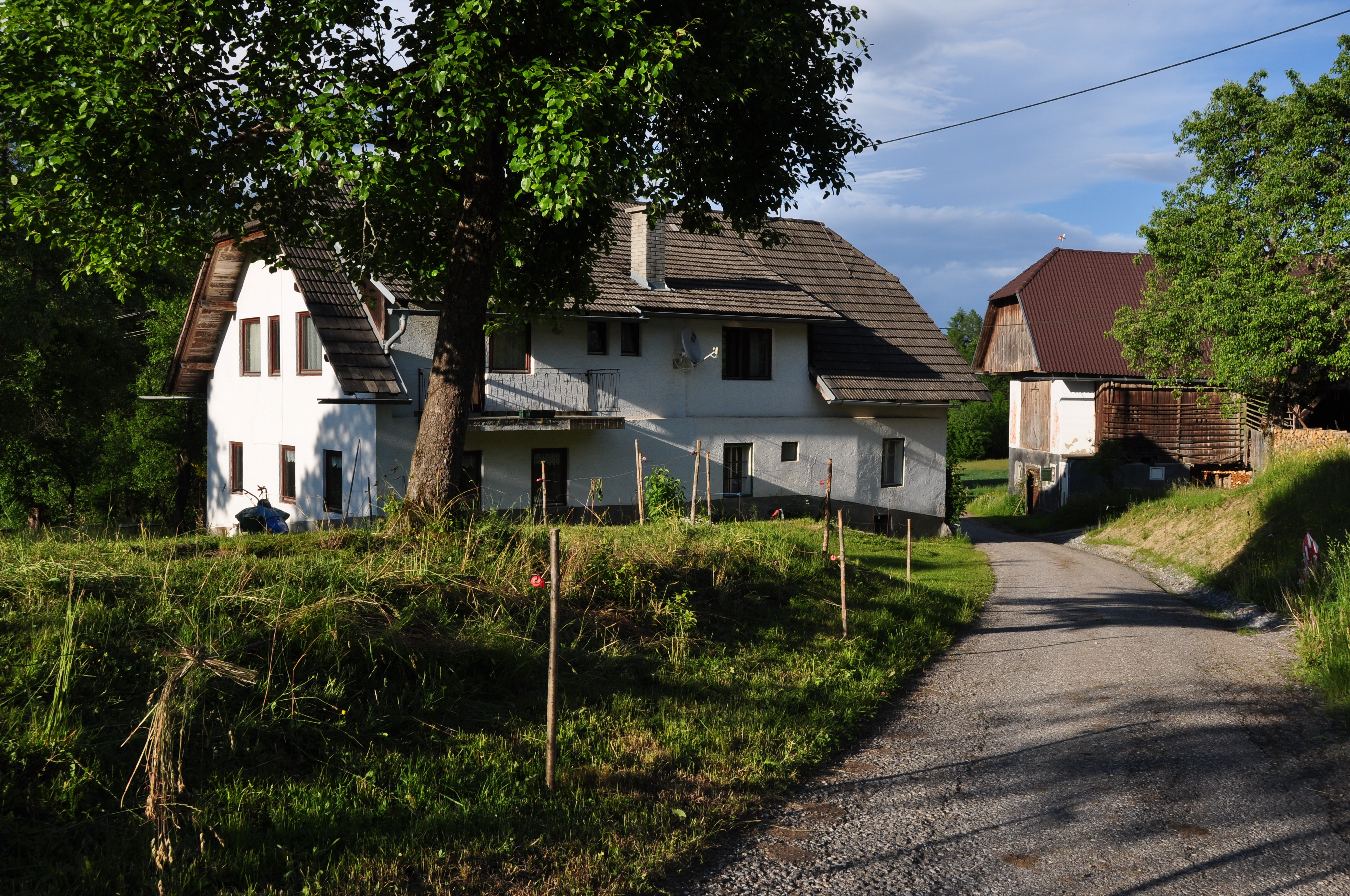 Dobein #2, farmstead "vulgo TRIEBNIG" in the municipality Keutschach am See, district Klagenfurt Land, Carinthia, Austria